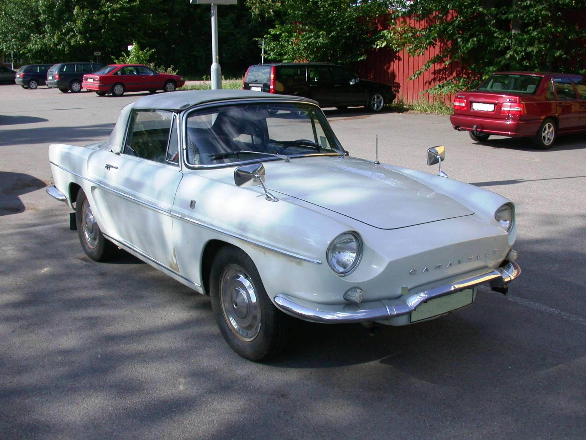 Renault Caravelle 1964. Photo by Riggwelter, July 13, 2006.